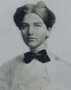 Portrait of Catherine Filene Shouse at her graduation from Bradford Academy in Haverhill, Massachusetts. Gelatin silver print, 1913.